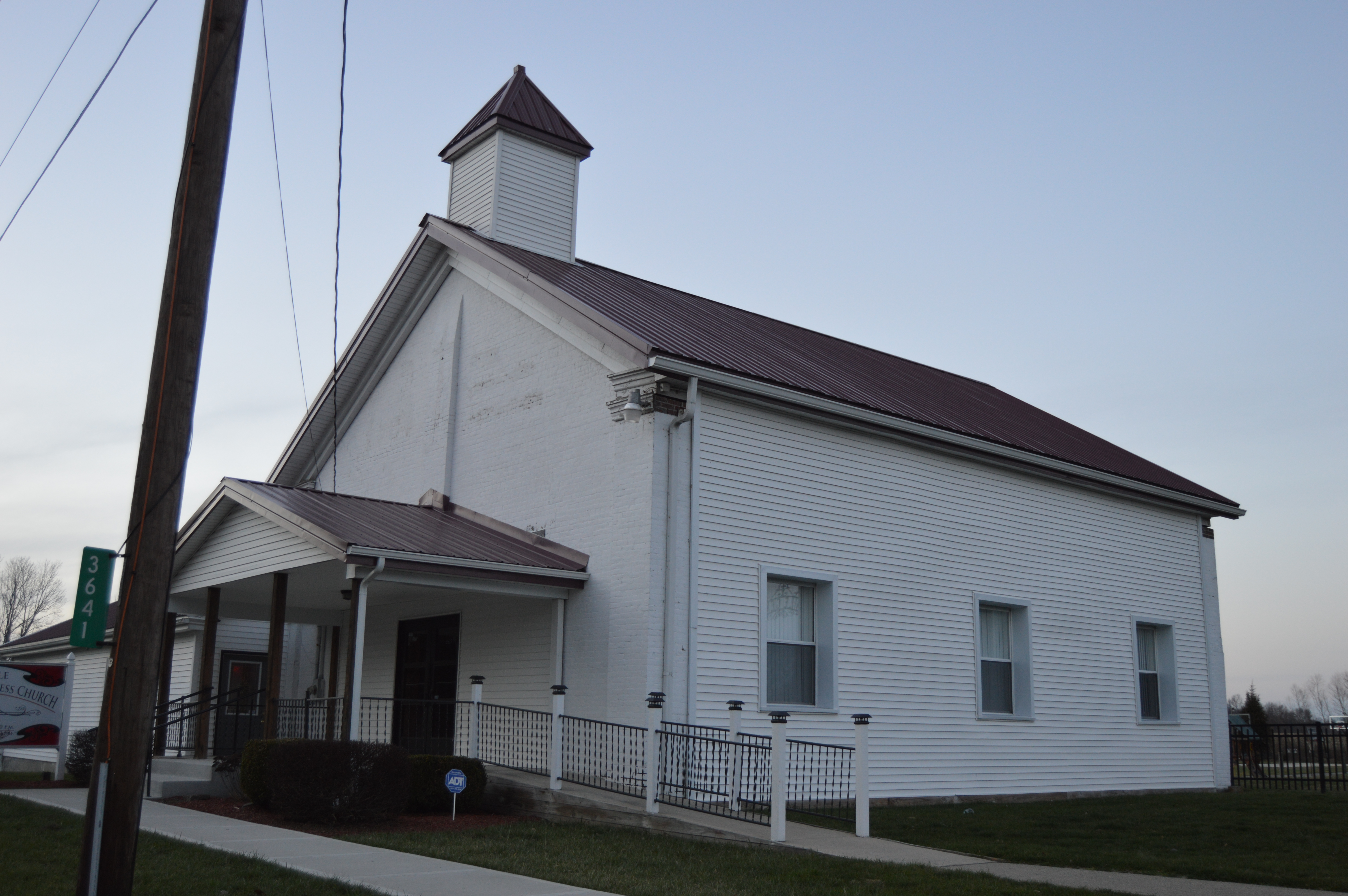 Front and northern side of the Five Mile Old Fashion [sic] Holiness Church, located at 3641 State Route 286 north of Mount Orab in Sterling Township, Brown County, Ohio, United States. It was built in 1871 for a local Church of Christ congregation.